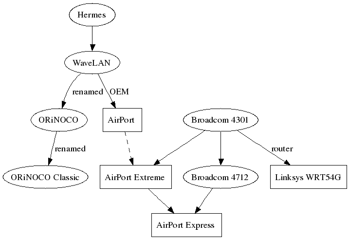 WLAN chipsets